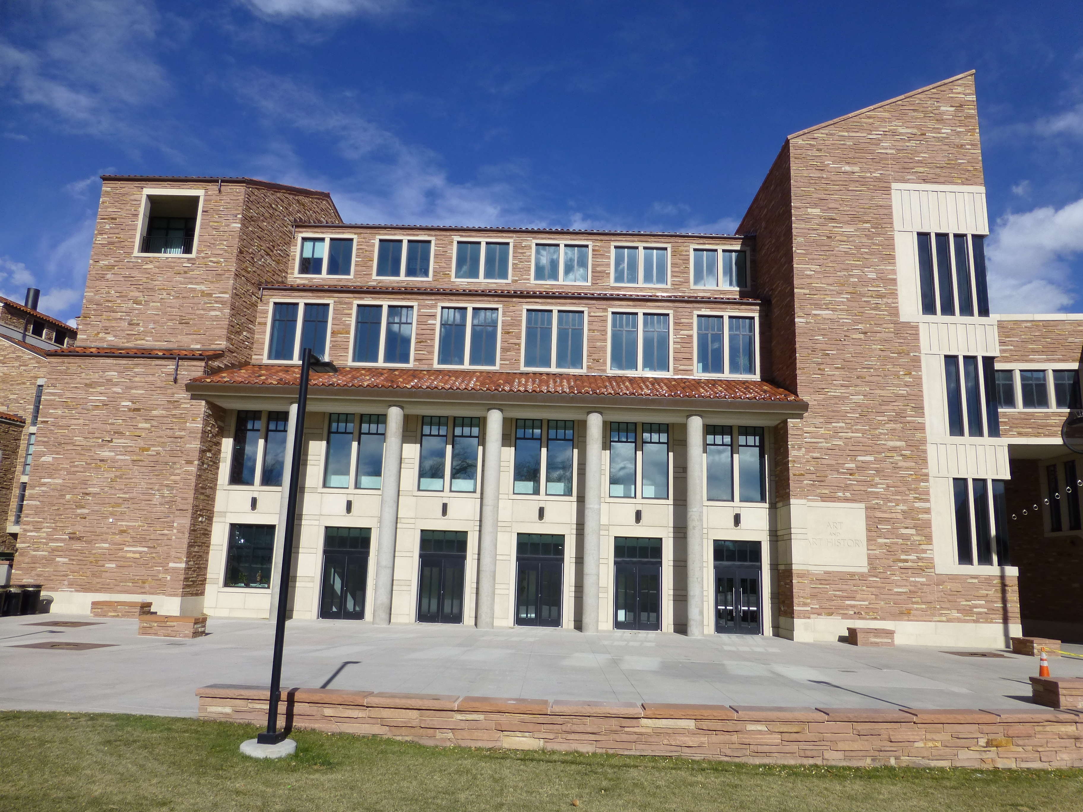 Visual Arts Complex South side